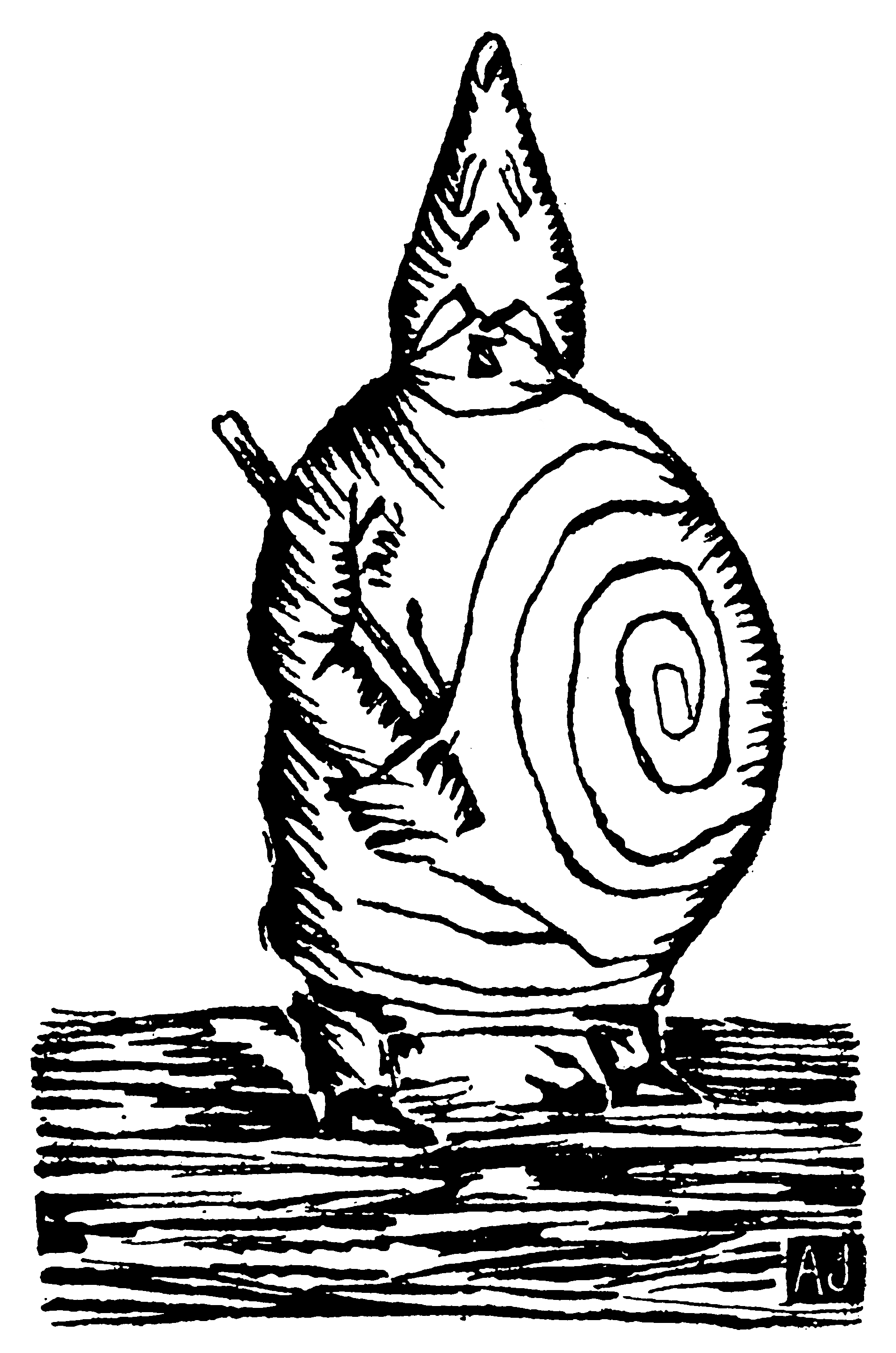 Representation of Père Ubu by Alfred Jarry